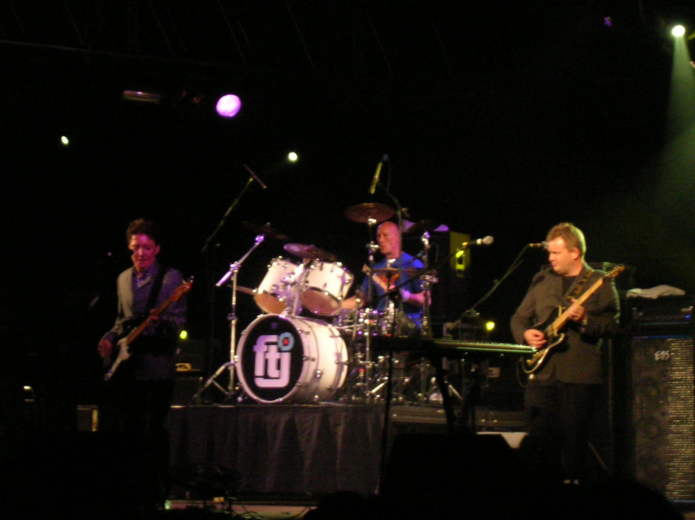 From the Jam performing at Bingley Music Live on 1 September 2007.